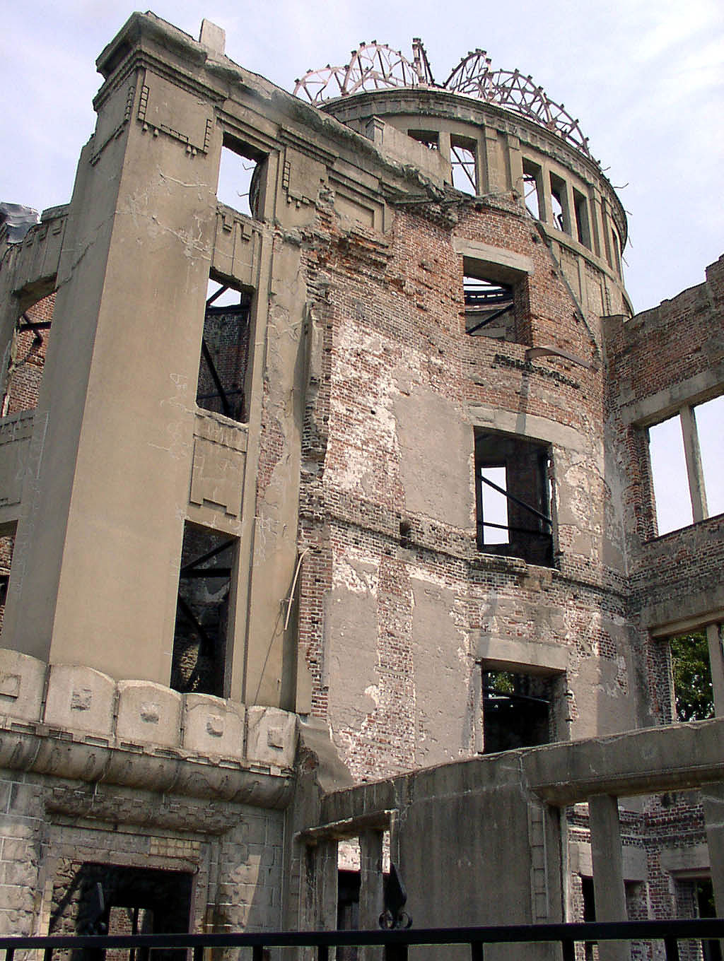 Hiroshima Peace Memorial